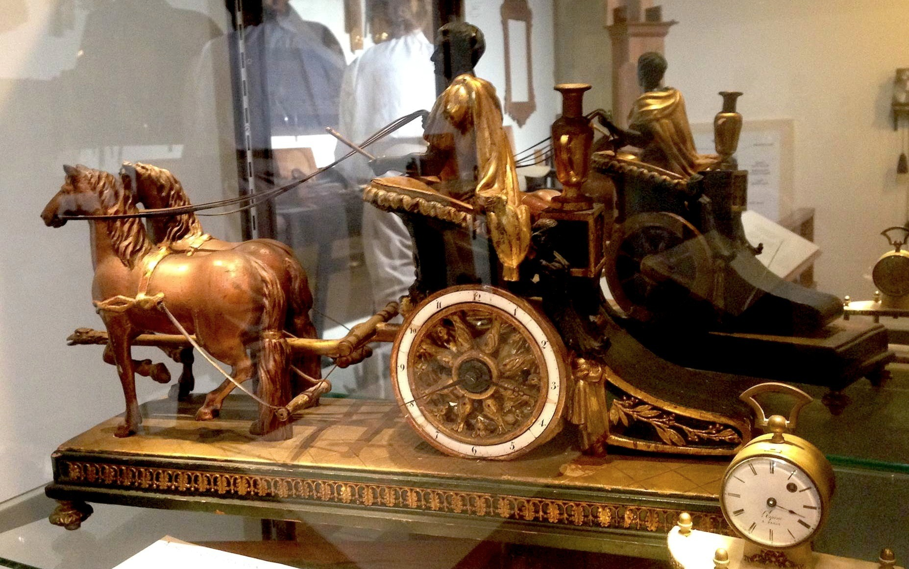 Austrian chariot clock, c. 1810. Carved, painted and gilt wood, depicting a man driving his chariot drawn behind two horses. The figure appears to be a depiction of a Roman emperor. It may also represent Napoleon who was frequently portrayed as an emperor. The wheel of the chariot forming the dial of the clock. Narrow enamelled chapter ring. Thirty-hour movement, verge escapement and grand-sonnerie striking on two bells. National Watch and Clock Museum, Columbia, PA, USA.